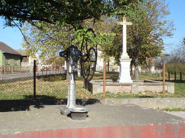 Photo